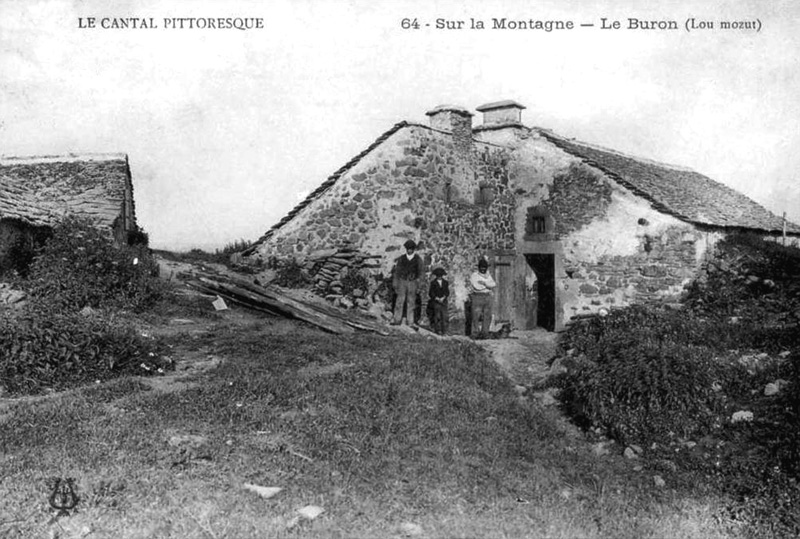 A cheese-making barn (known as "buron" in geographers' parlance and "mozut" in the vernacular language) in the Cantal department (France), built of mortared stone and covered in stone tiles.